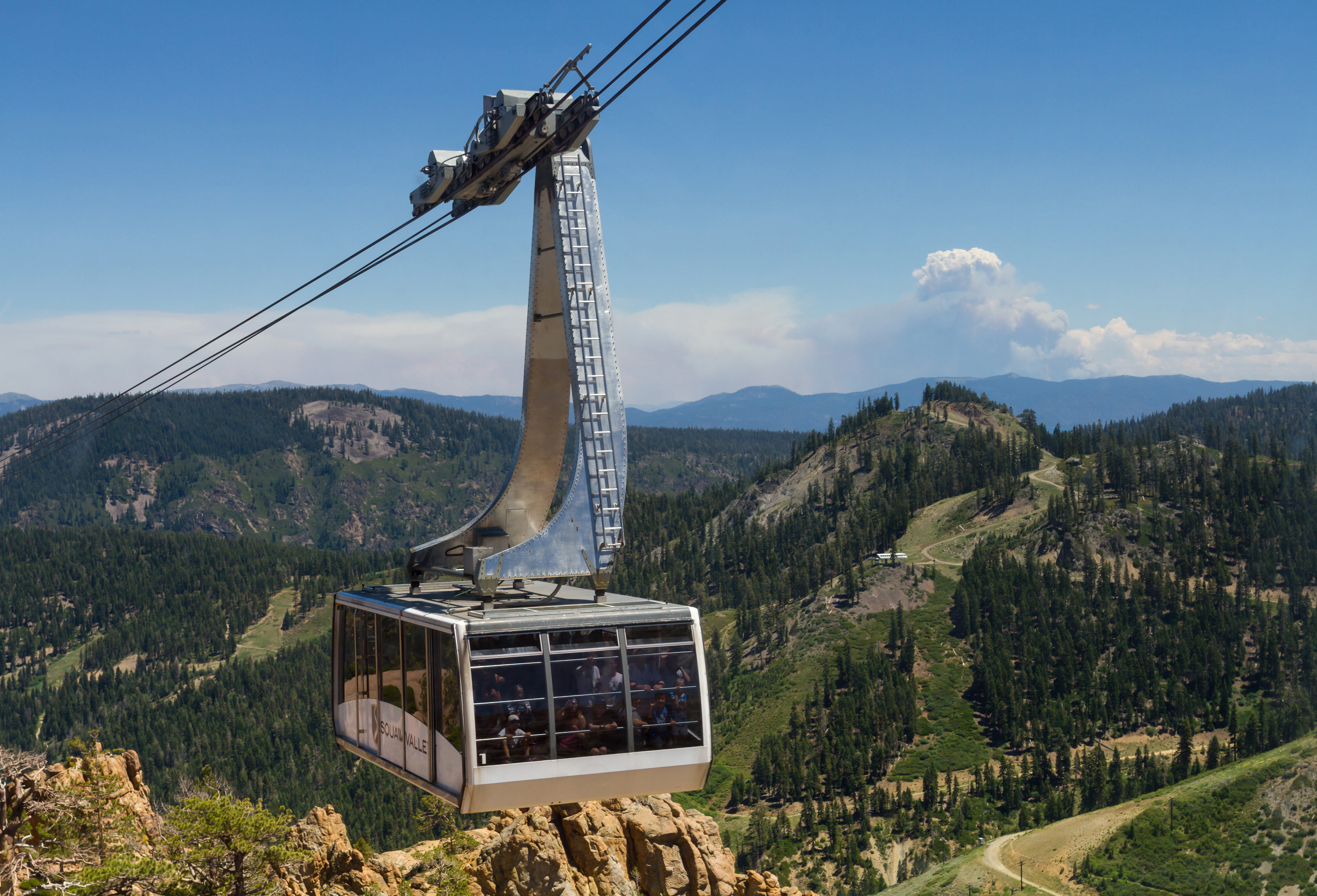 Gondola on its way to the 1960 Winter Olympics High Camp in Squaw Valley, High Sierra.